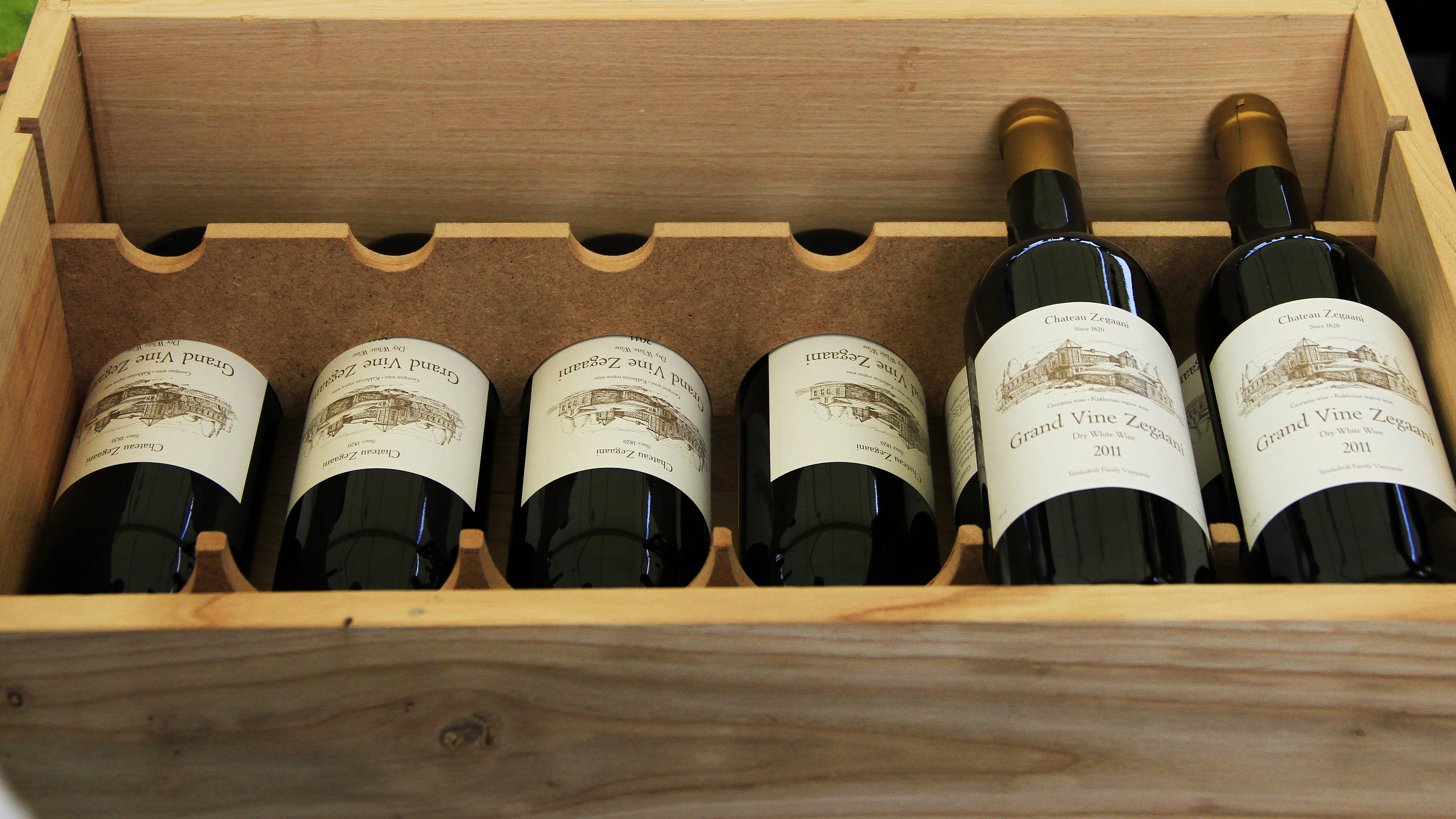 Chateau Zegaani Grand Vine